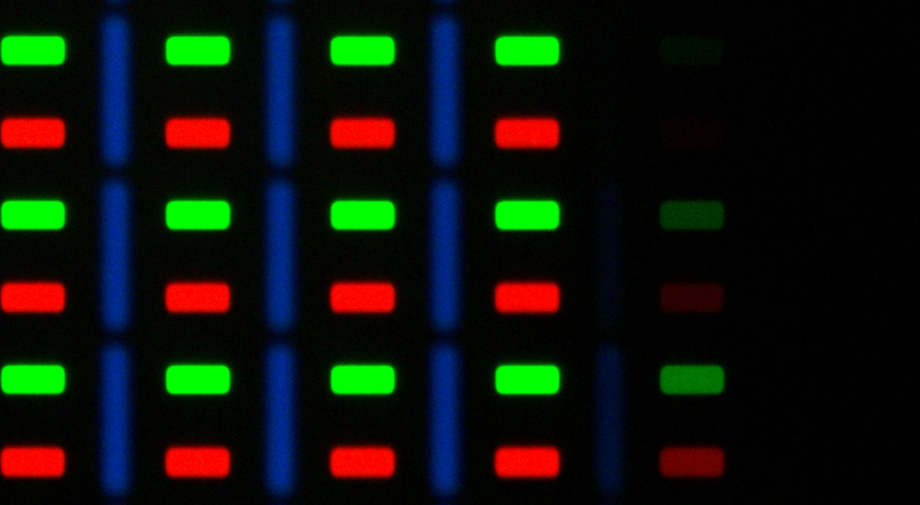 Samsung's SuperAMOLED display from a Galaxy S4 Mini. Half-pitch and thinnest lines are 2.5 µm. Diagonal die size is 109mm.